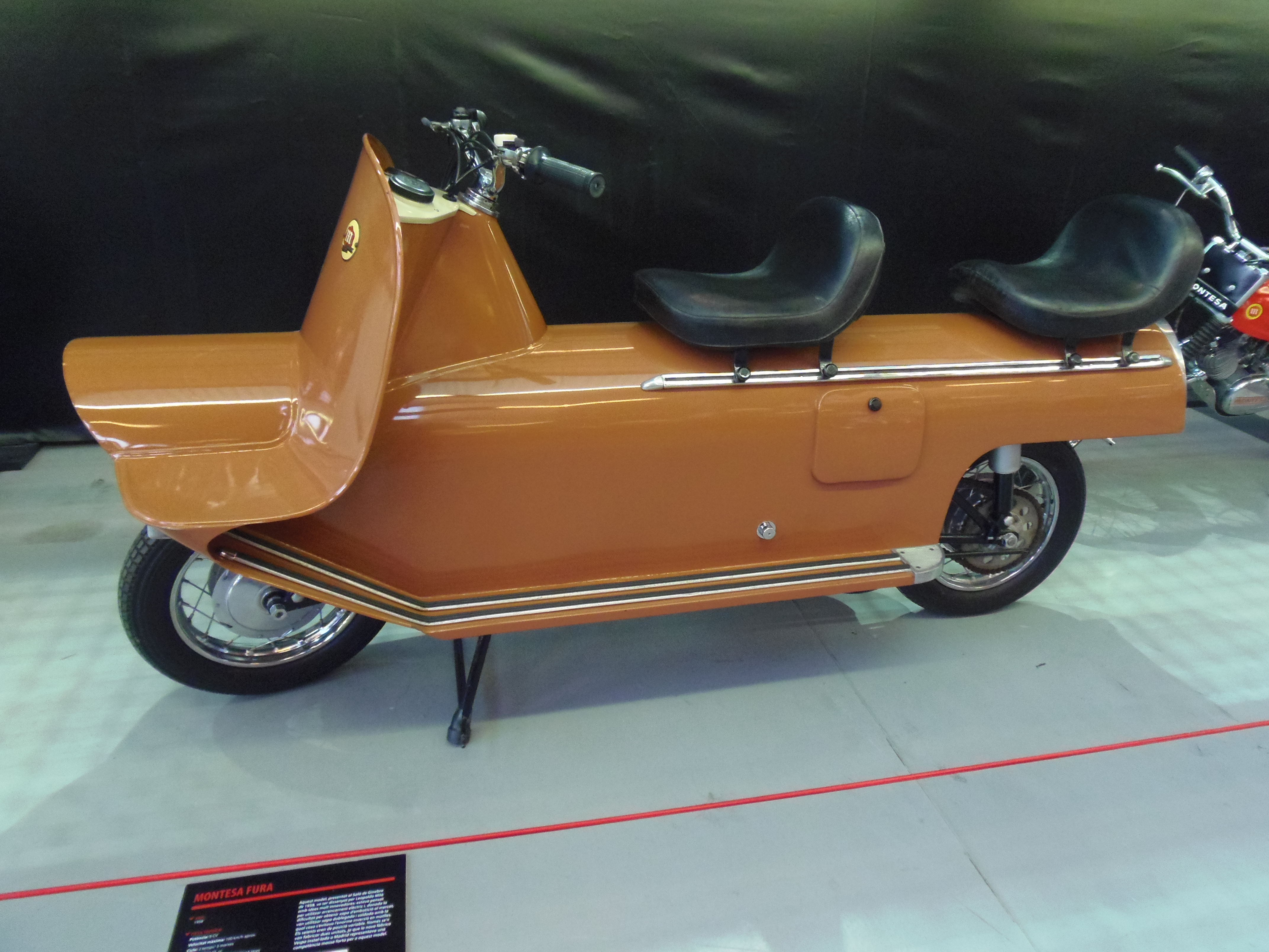 Montesa Fura 142cc (scooter prototype), 1958